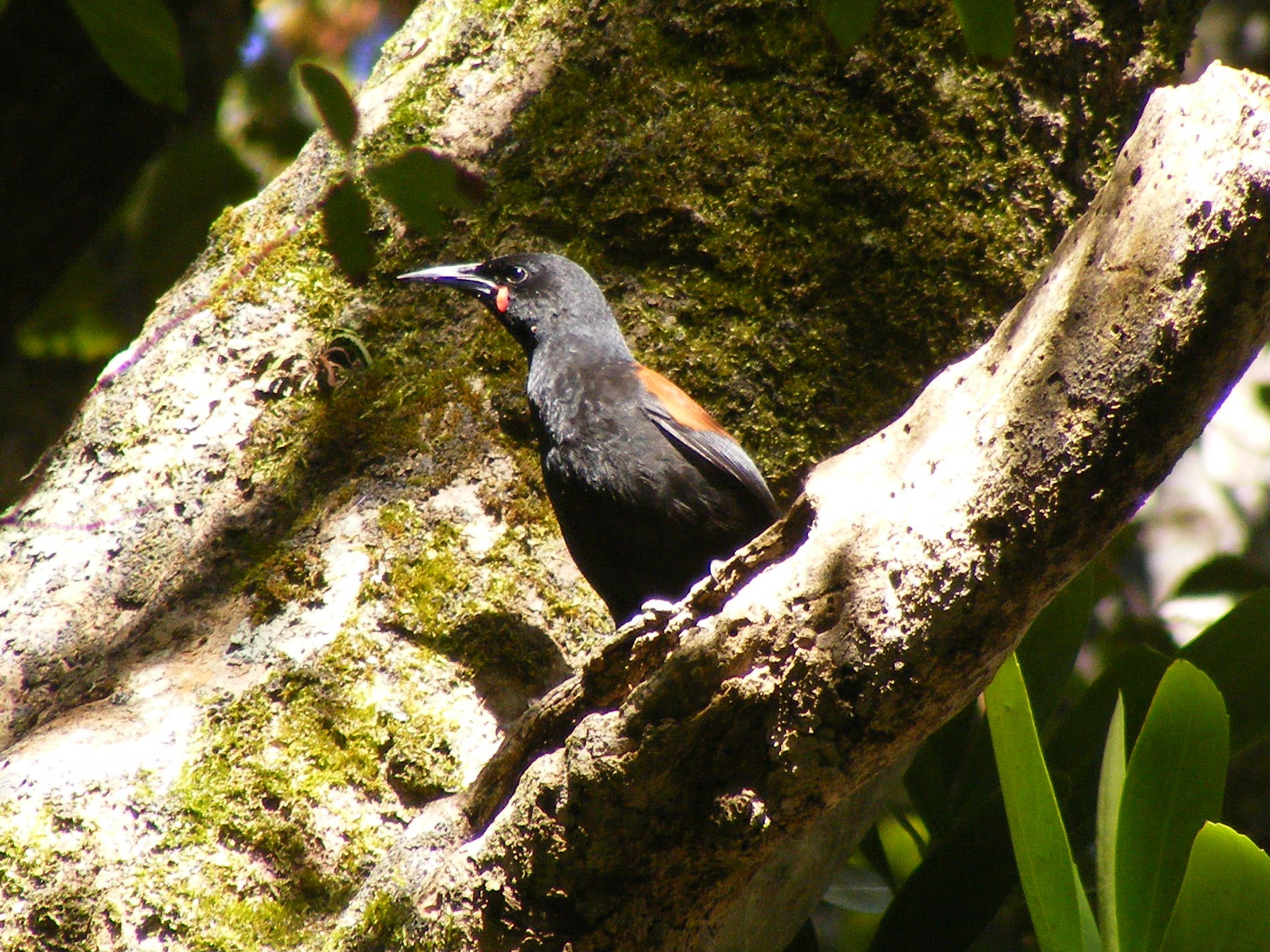 South Island Saddleback or Tieke on Ulva Island, an island bird sanctuary located off Stewart Island/Rakiura (New Zealand), where a sizable population of South Island Saddlebacks is maintained